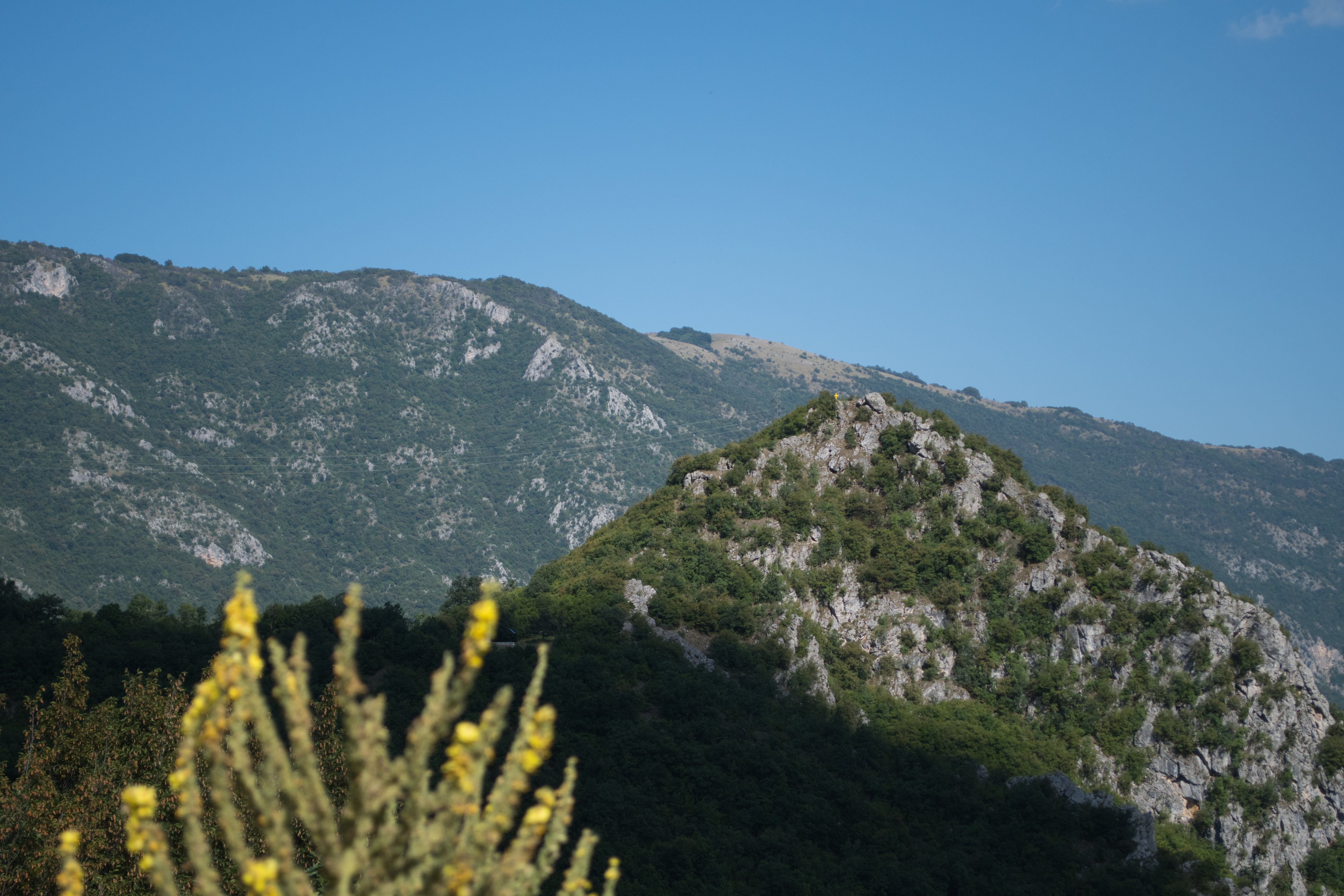 Hill with a cross near the village of Modrič